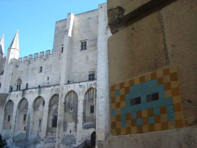 Space Invaders in Avignon, France. Taken by Bamzin